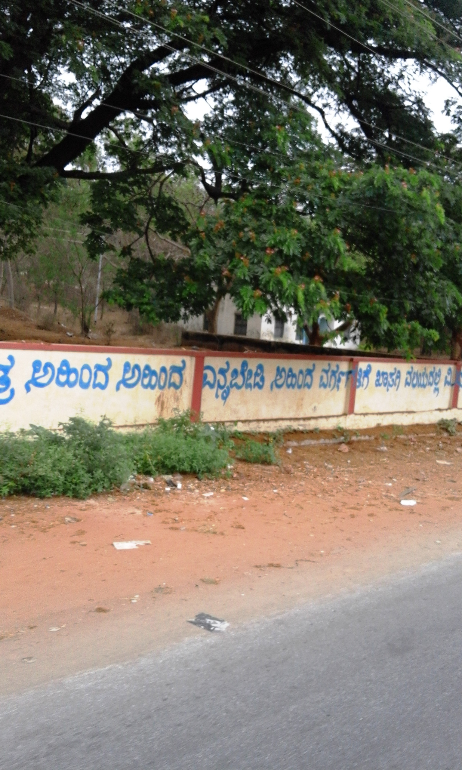 Mananthavady Road, Mysore district, Karnataka province, India.